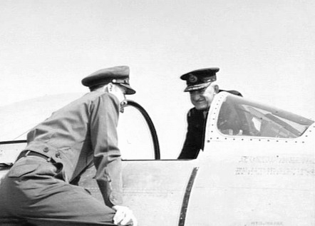 Kimpo, South Korea. 1953-04-30. During his visit to No. 77 Squadron RAAF in Korea, Air Vice-Marshal Wackett was able to inspect an American Sabre jet in the company of Captain Manuel Fernandez, one of the U.S.A.F.'s "Mig Killers".